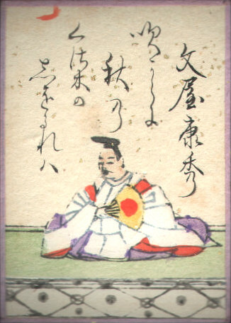 A portrait of Fun'ya no Yasuhide; illustration from an uta-garuta playing card for Hyakunin Isshu, created in the Edo period.